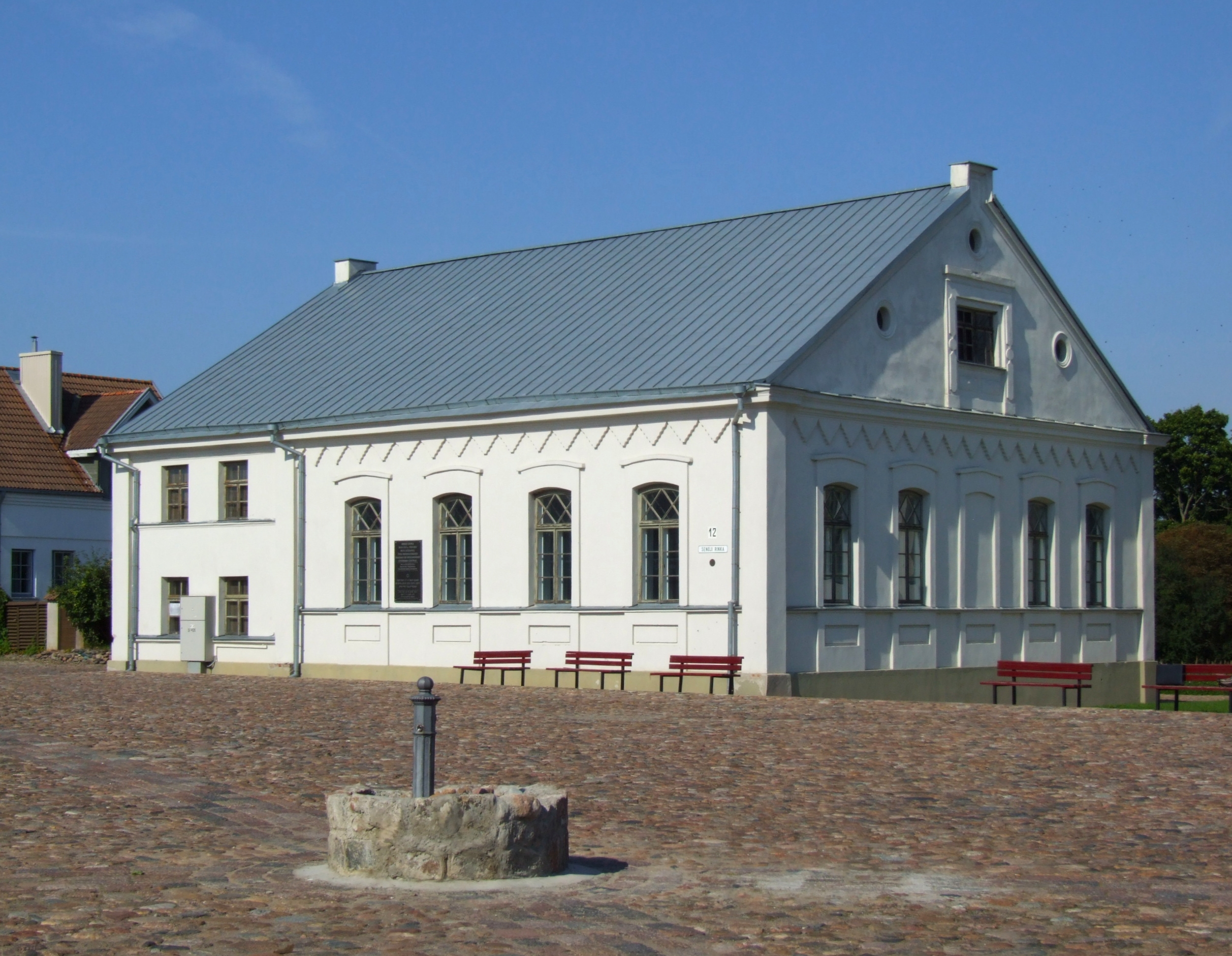 New synagogue in Kėdainiai (Kiejdany)